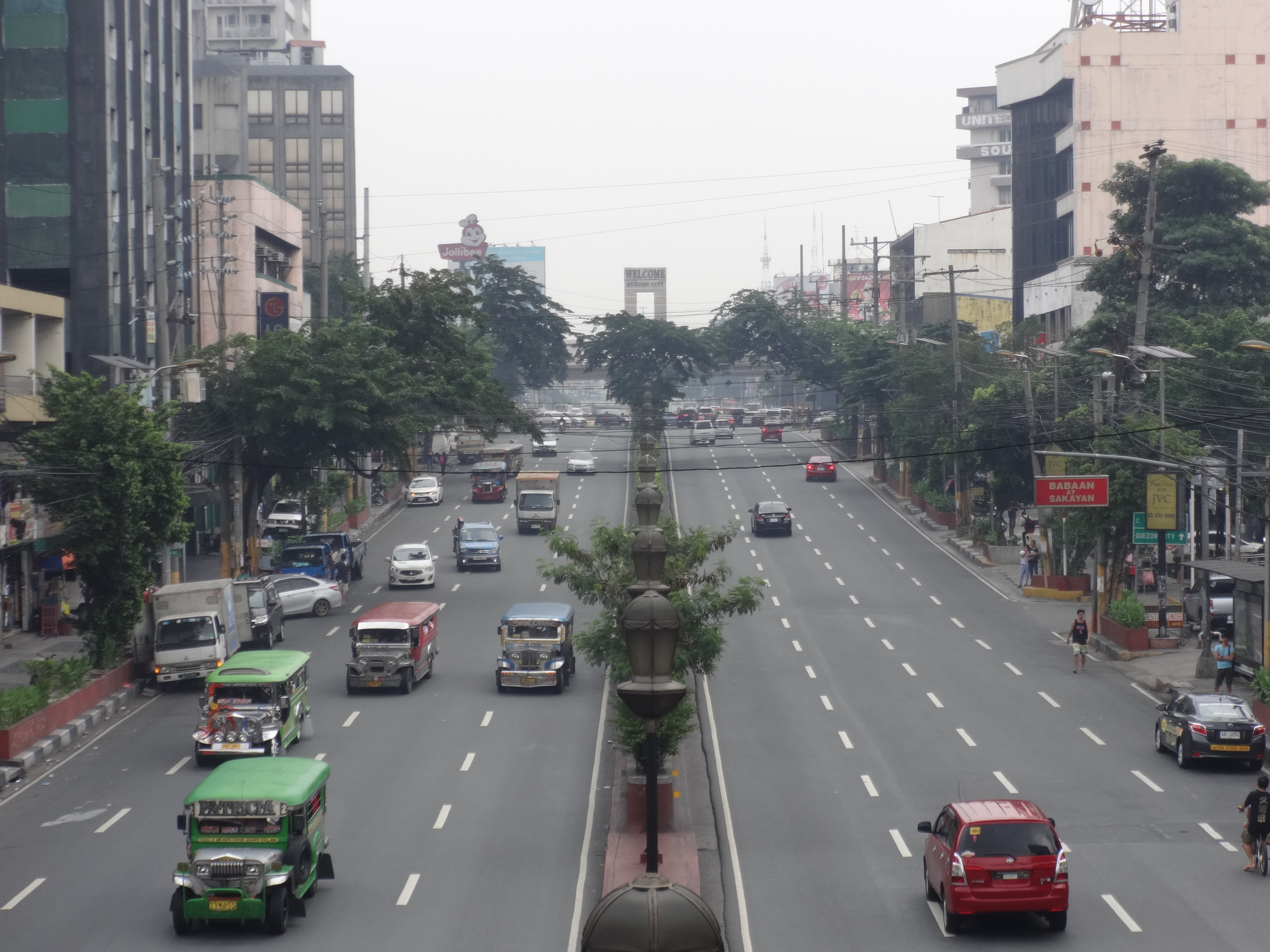 View of España Boulevard near Welcome Rotonda in Sampaloc, Manila